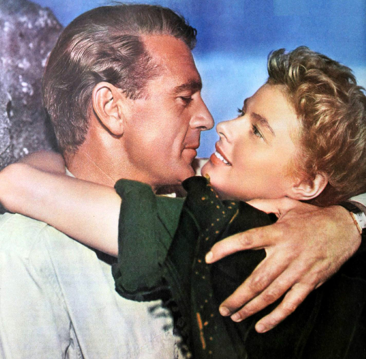 Photo of Gary Cooper and Ingrid Bergman in For Whom the Bell Tolls.